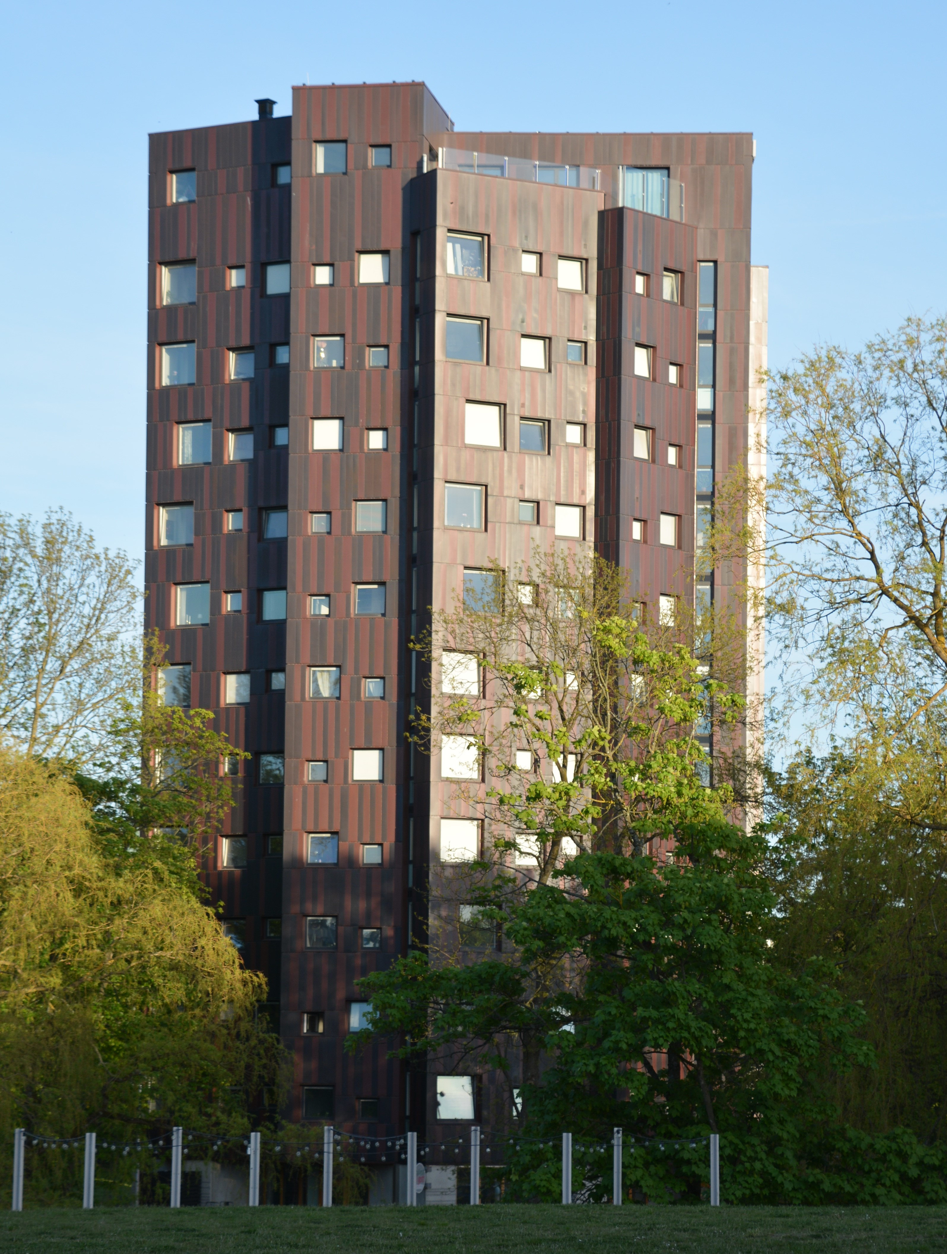 Helsingkrona nation, Lund. Tornet från 2015.